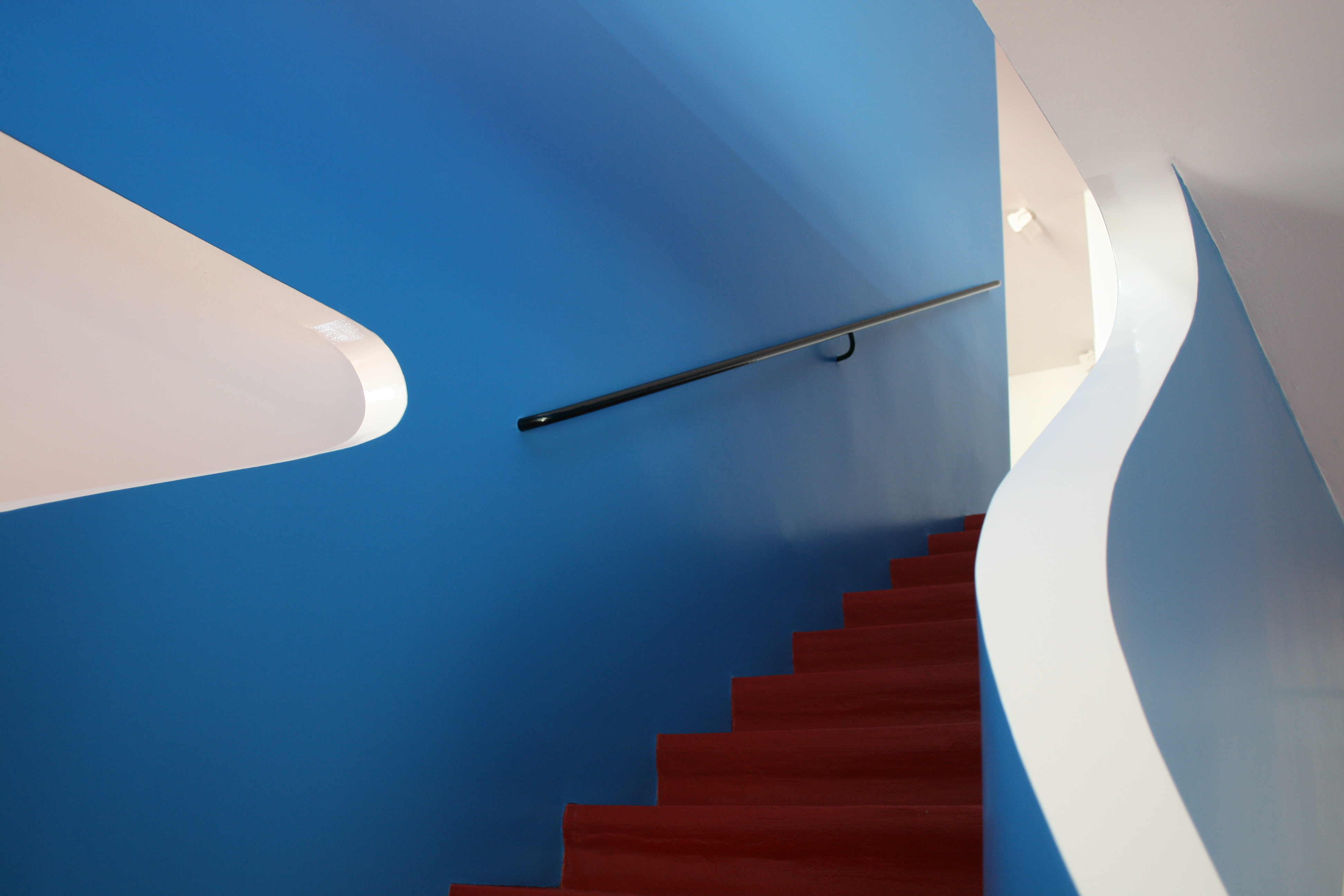 Café Era, functionalist building by Josef Kranz, Brno, Czech Republic.